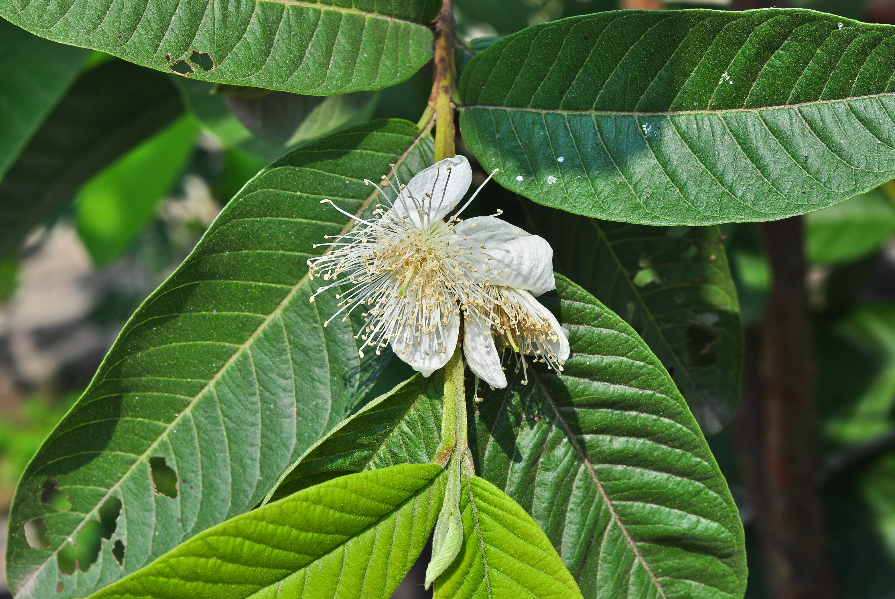 Flower of common guava (Psidium guajava). Taken at Burdwan, West Bengal, India.